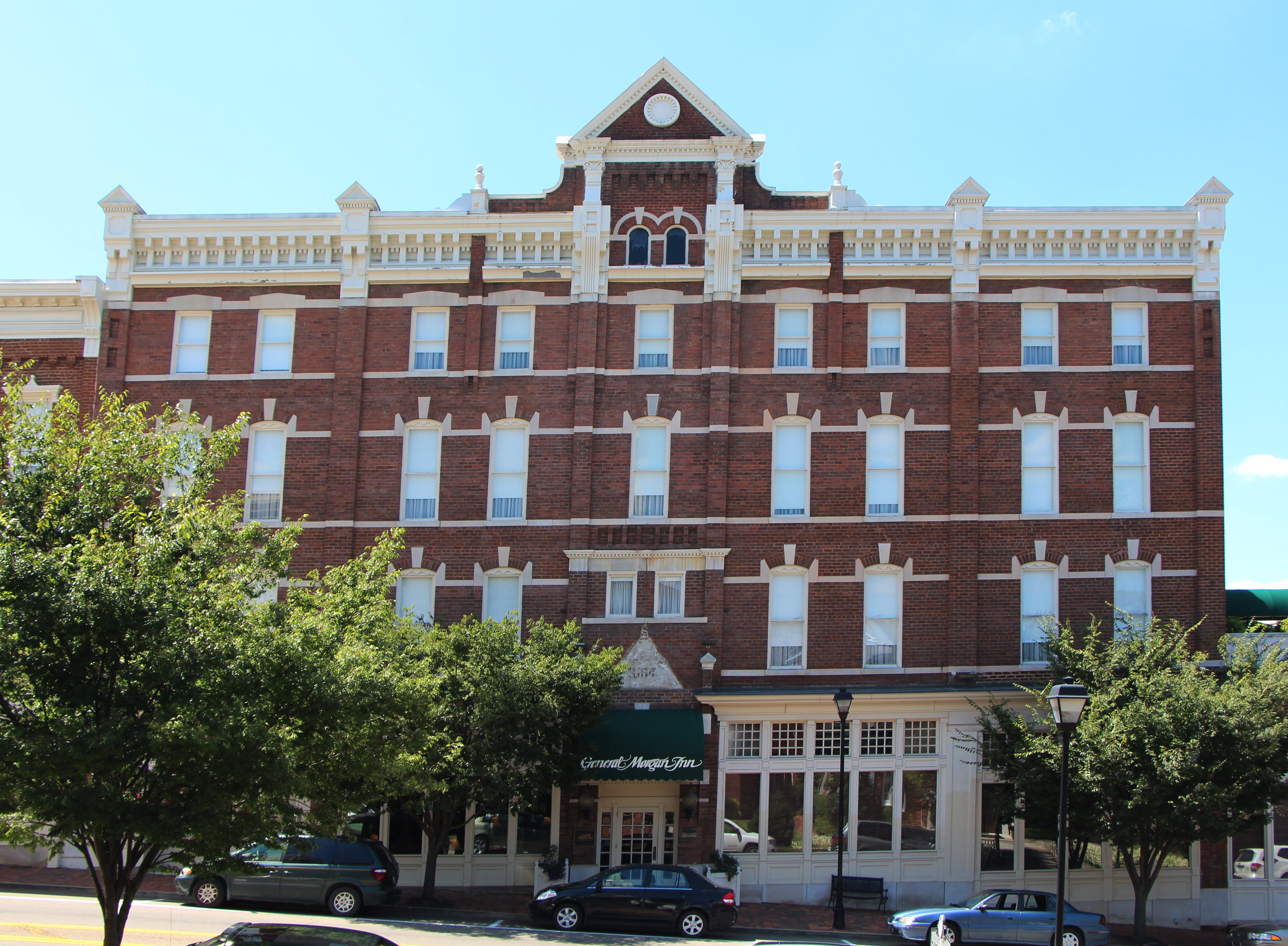 Hotel Brumley, now known as Morgan Inn, Greeneville, TN